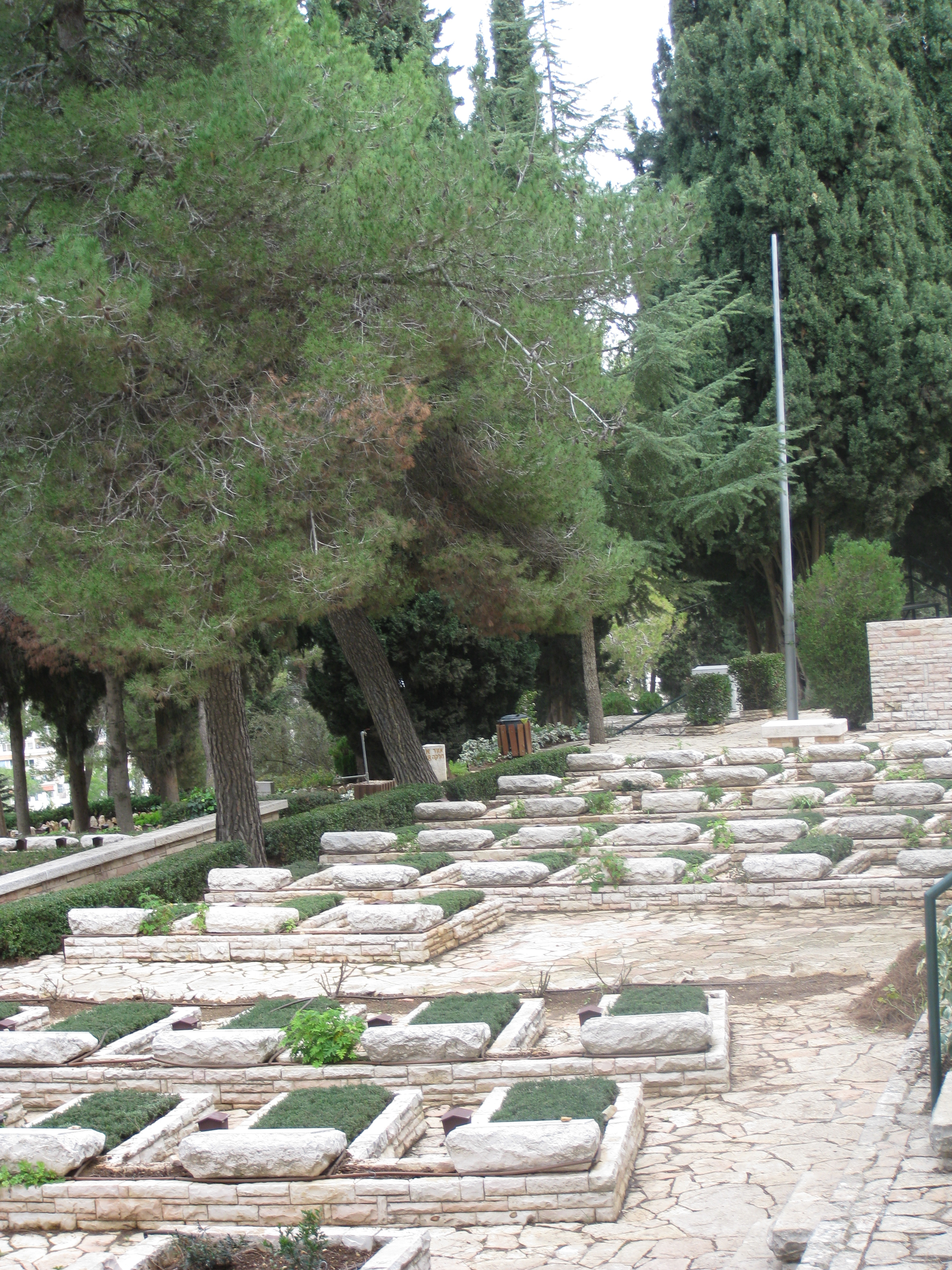 The Lamed Hey (35) Graves